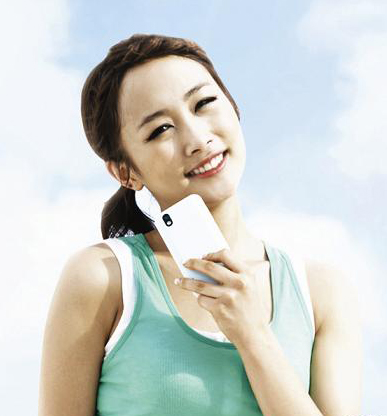 Kara in LG Optimus Bright advertisement